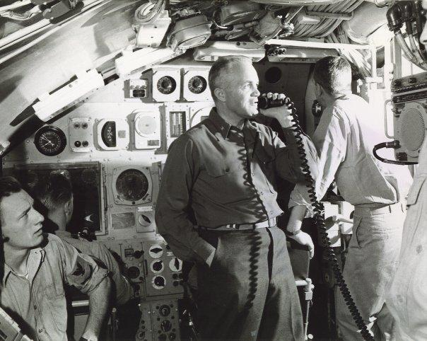 Captain Edward L Beach announcing Operation Sandblast to crew onboard USS Triton, 17 February 1960